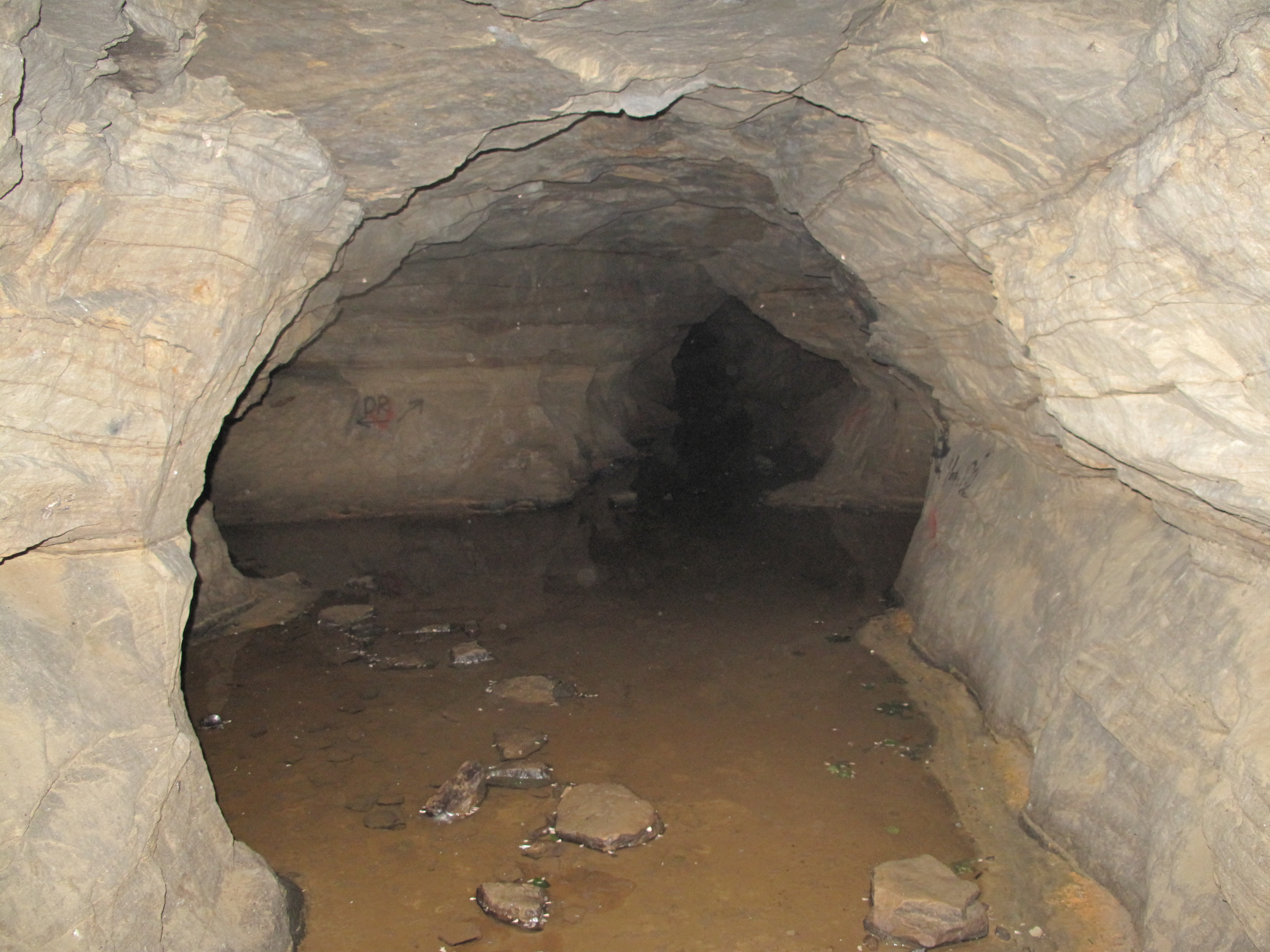 Former Ülgase phosphorite mine near Tallinn, Estonia.